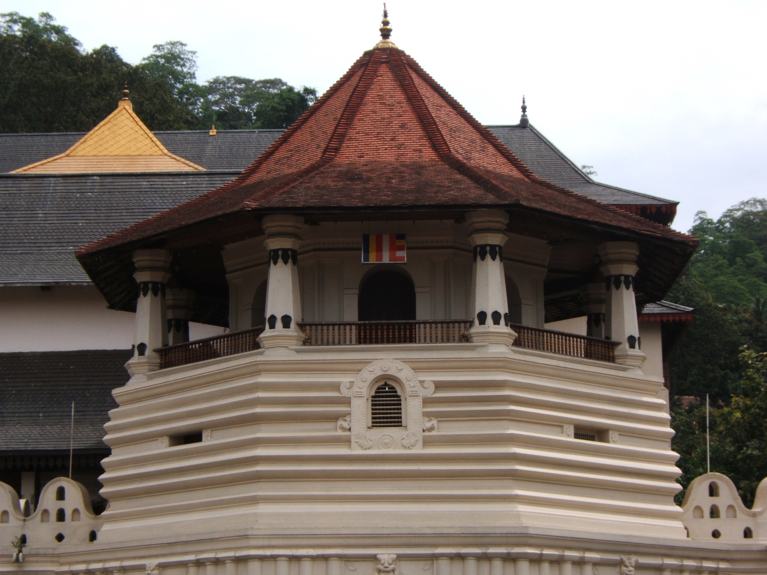 Patthirippua at Sri Dalada Maligawa Kandy,Sri Lanka